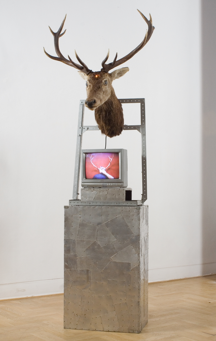 "Pan Jeleń /Autoepitafium/" - work by Józef Robakowski, from the permanent collection of Zachęta National Gallery of Art (Warsaw, Poland)